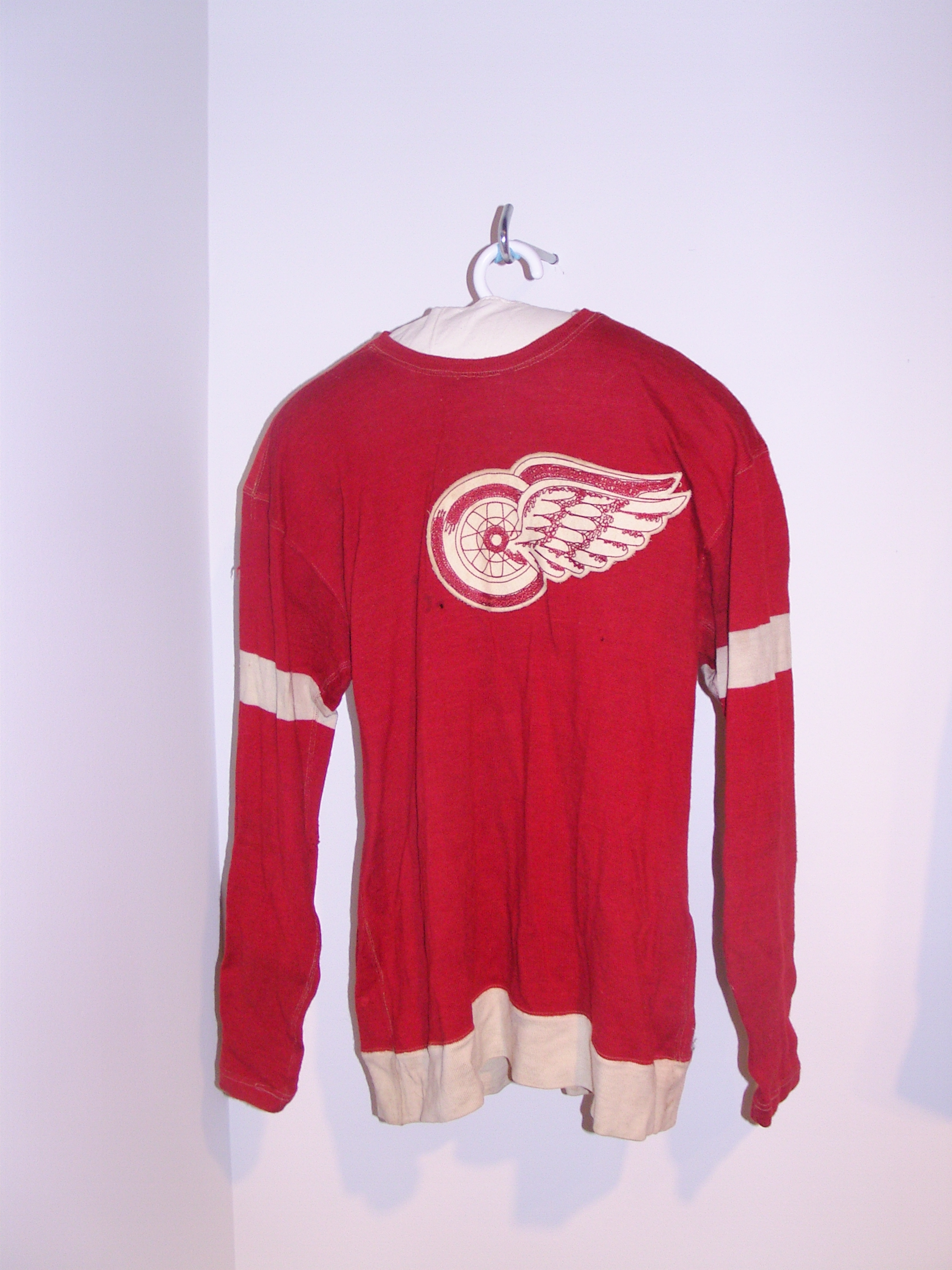 Red Wings jersey donated by Ebbie Goodfellow to City of Ottawa. Now in the collection of the City of Ottawa Archives.